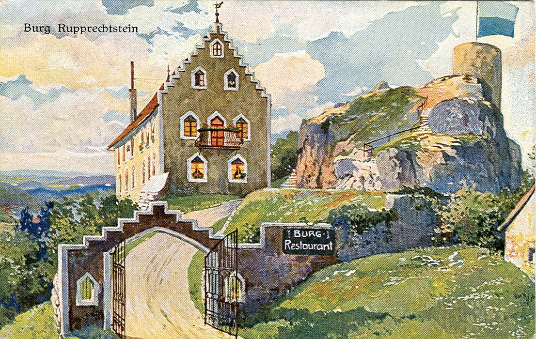 Postcard, undated ( ca.1914 ). Title: "Rupprechtstein castle, health resort. 544m. Owner J.Pickel".